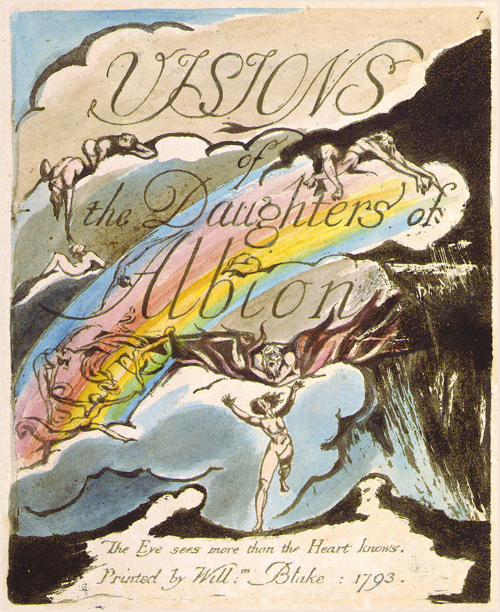 Visions of the Daughters of Albion, copy G, object 1 (Bentley 2, Erdman ii, Keynes ii) "Visions of the Daughters of Albion"